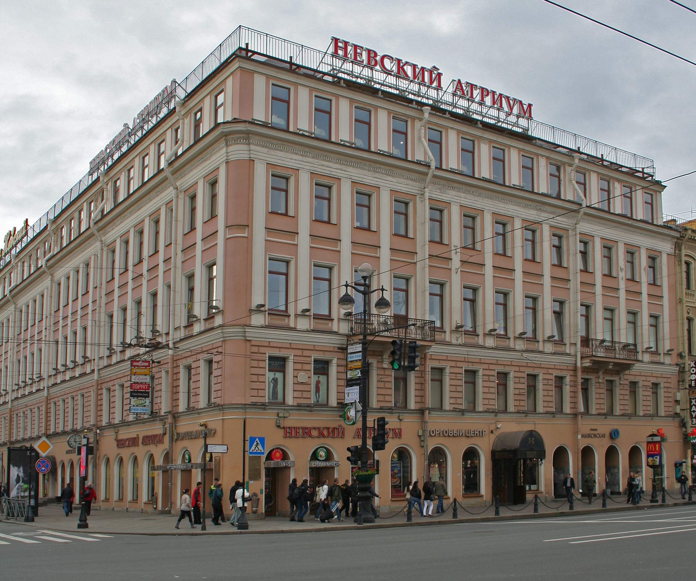 The Nevsky Prospekt in Saint Petersburg. House number 71.